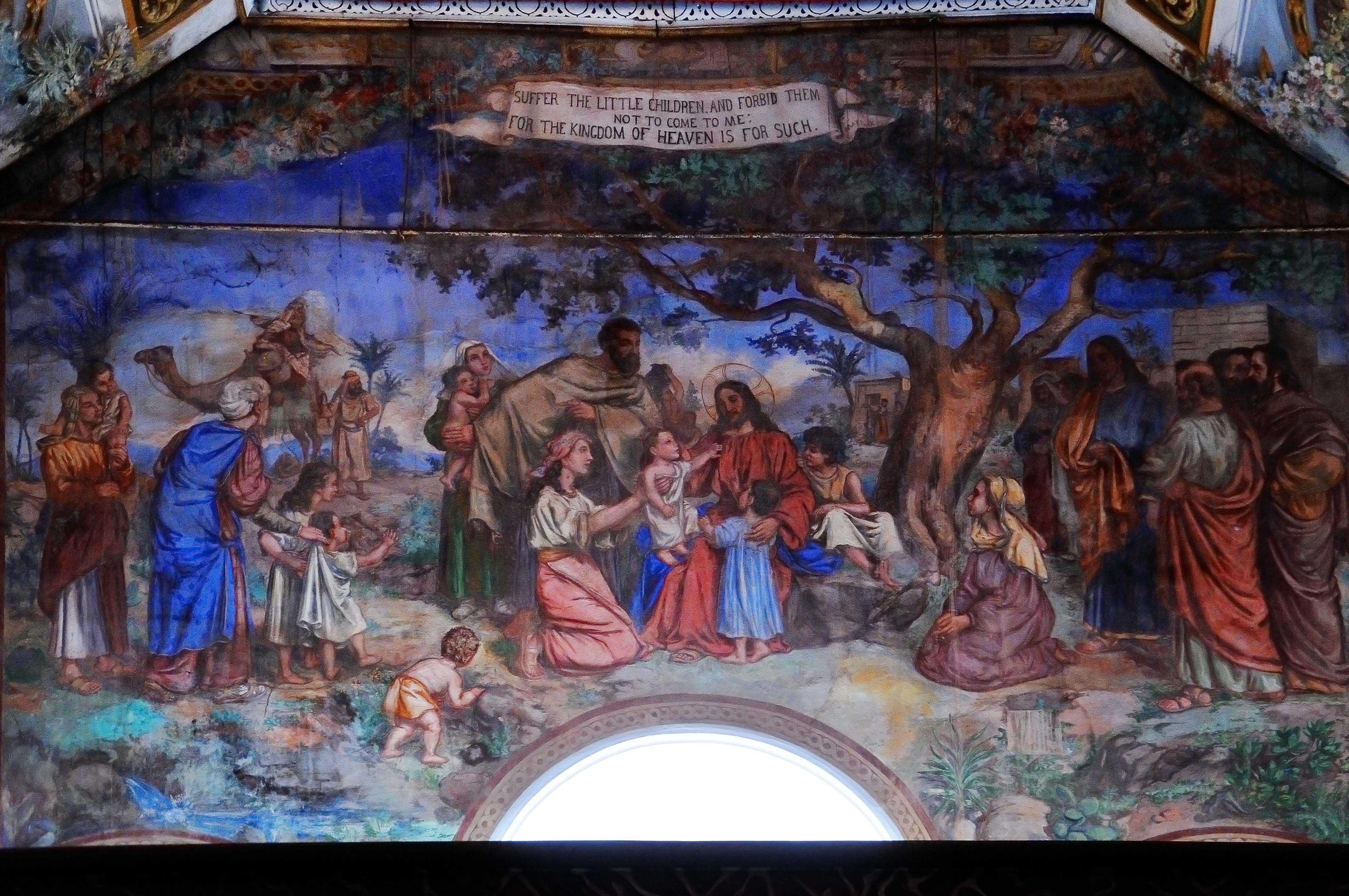 Master Piece of entire Paintings in rear wall